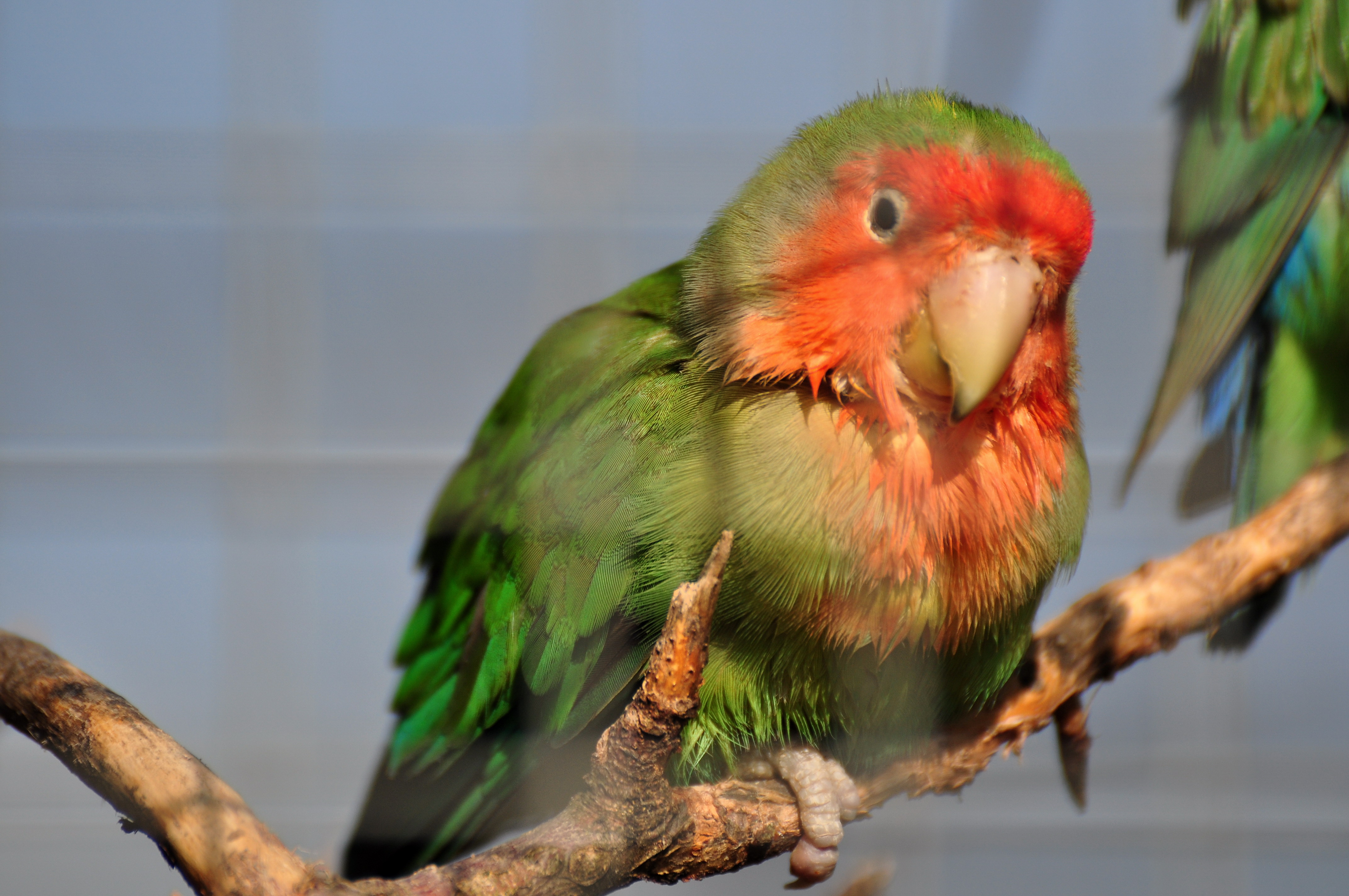 Agapornis roseicollis at Knie's Kinderzoo in Rapperswil (Switzerland)